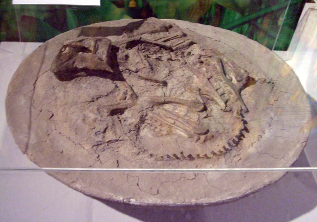 Psittacosaurus mongoliensis fossil displayed in Hong Kong Science Museum